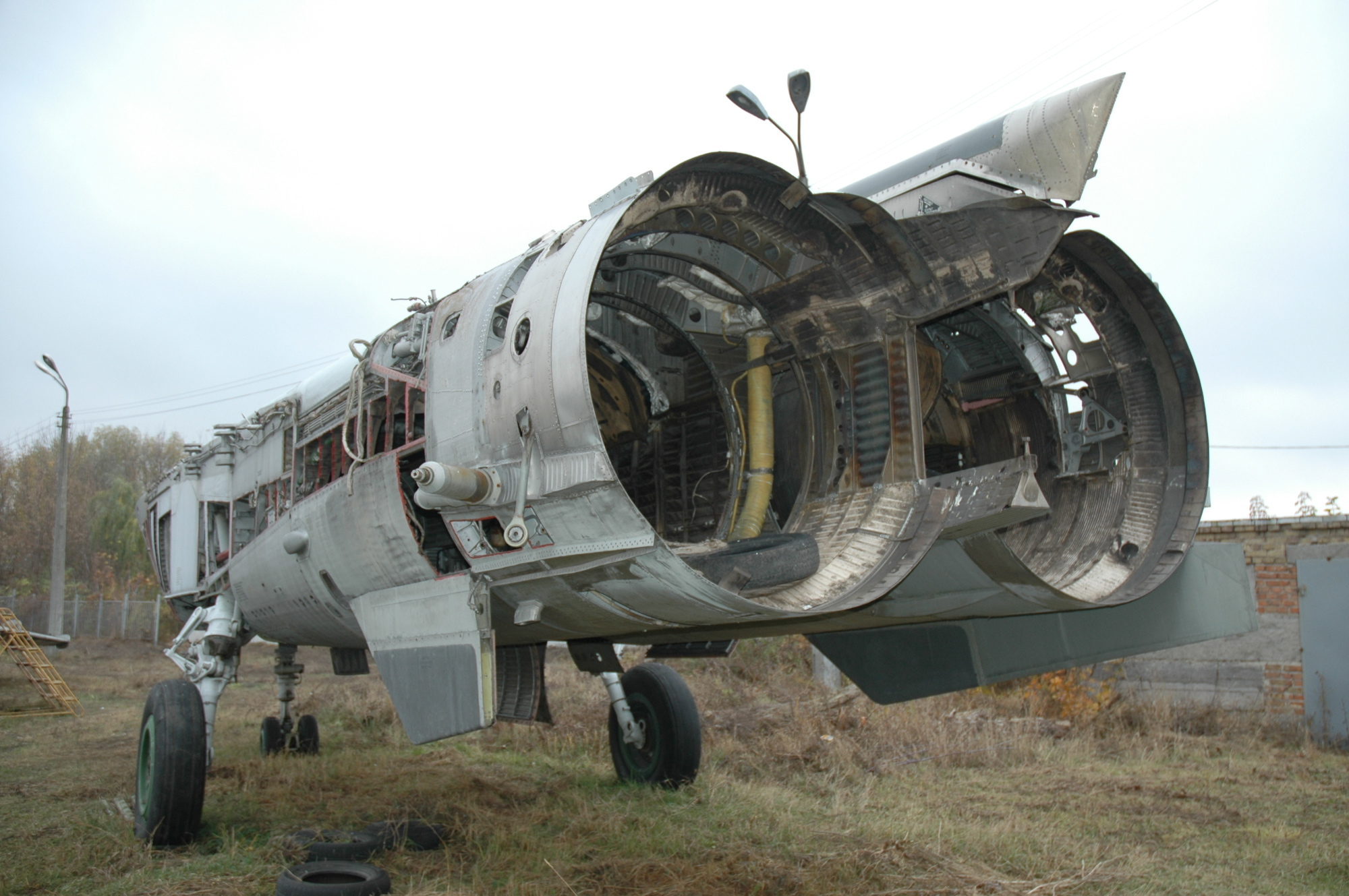 Mikoyan-Gurevich MiG-25 (Kyiv, Ukraine)